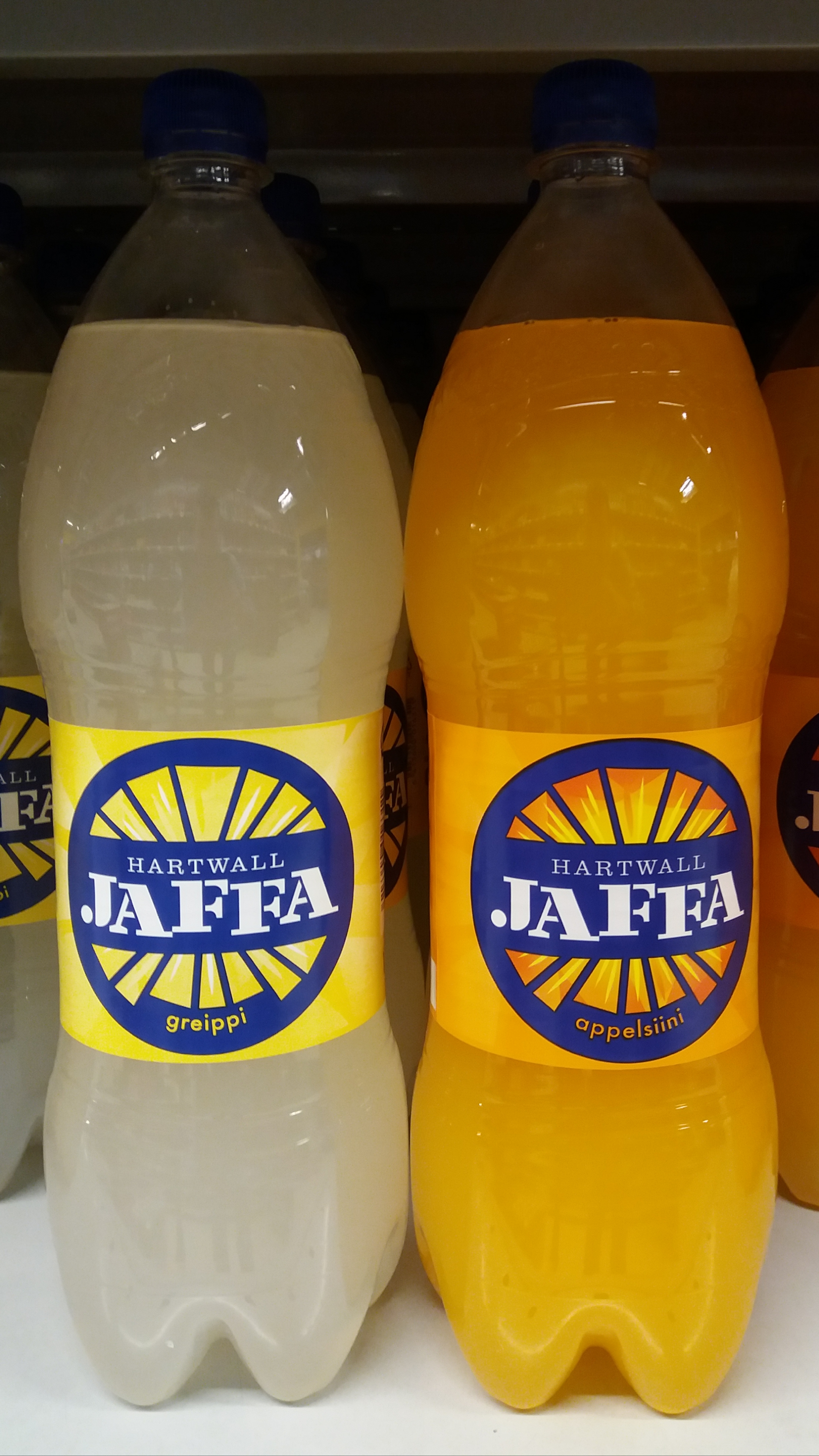 Hartwall Jaffa Greippi (grapefruit) and Appelsiini (orange) soft drink bottles in S-Market Itäkeskus, Helsinki, Finland